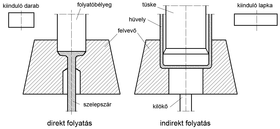 Direct and indirect cold extruding